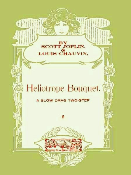 Heliotrope Bouquet sheet-music cover, 1907